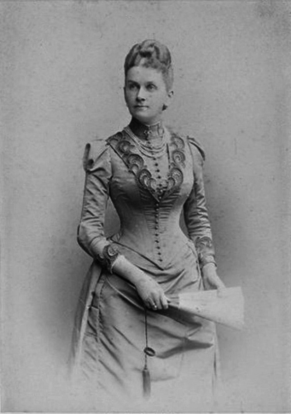 Carola of Vasa (1833-1907), Queen of Saxony